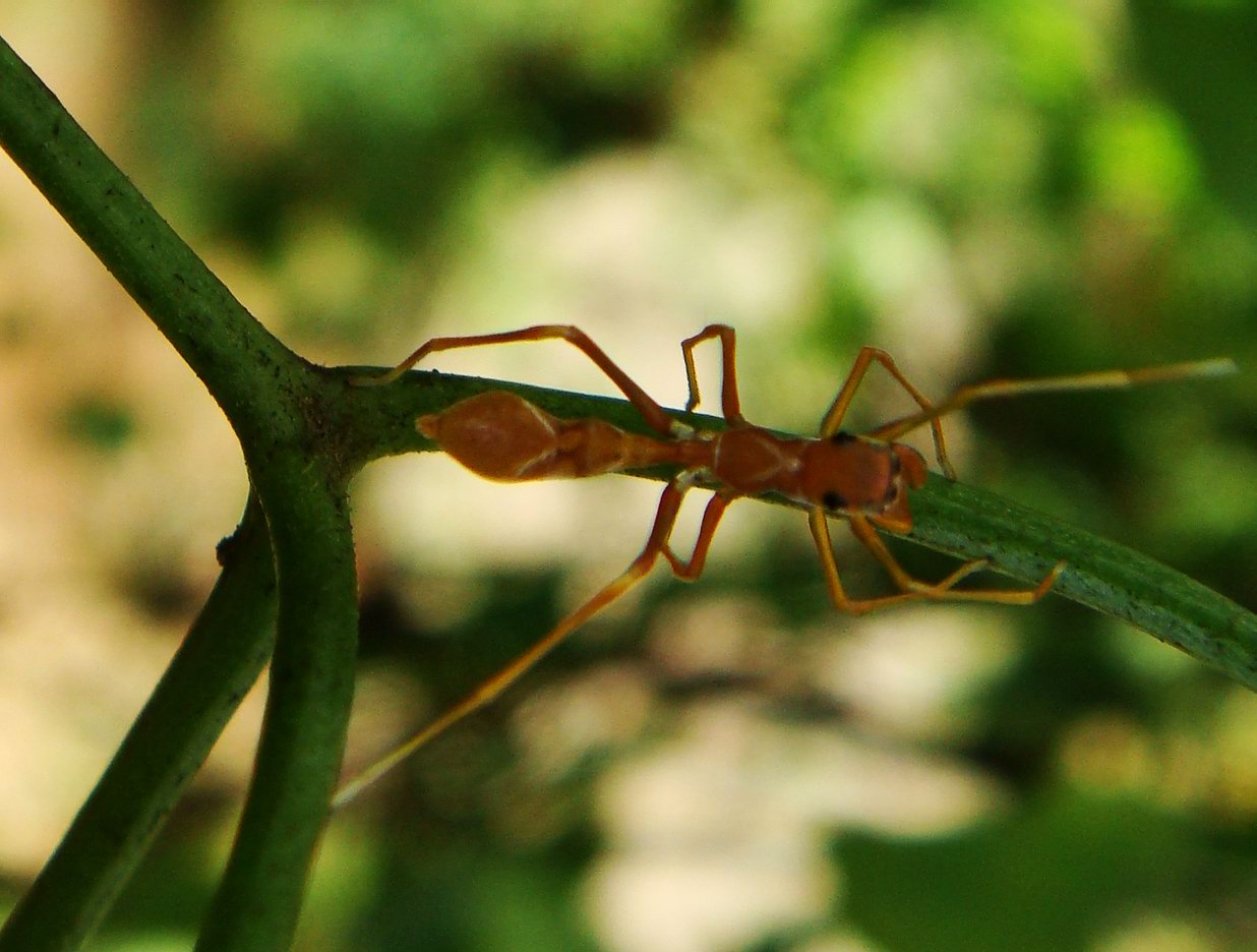 Myrmarachne plataleoides